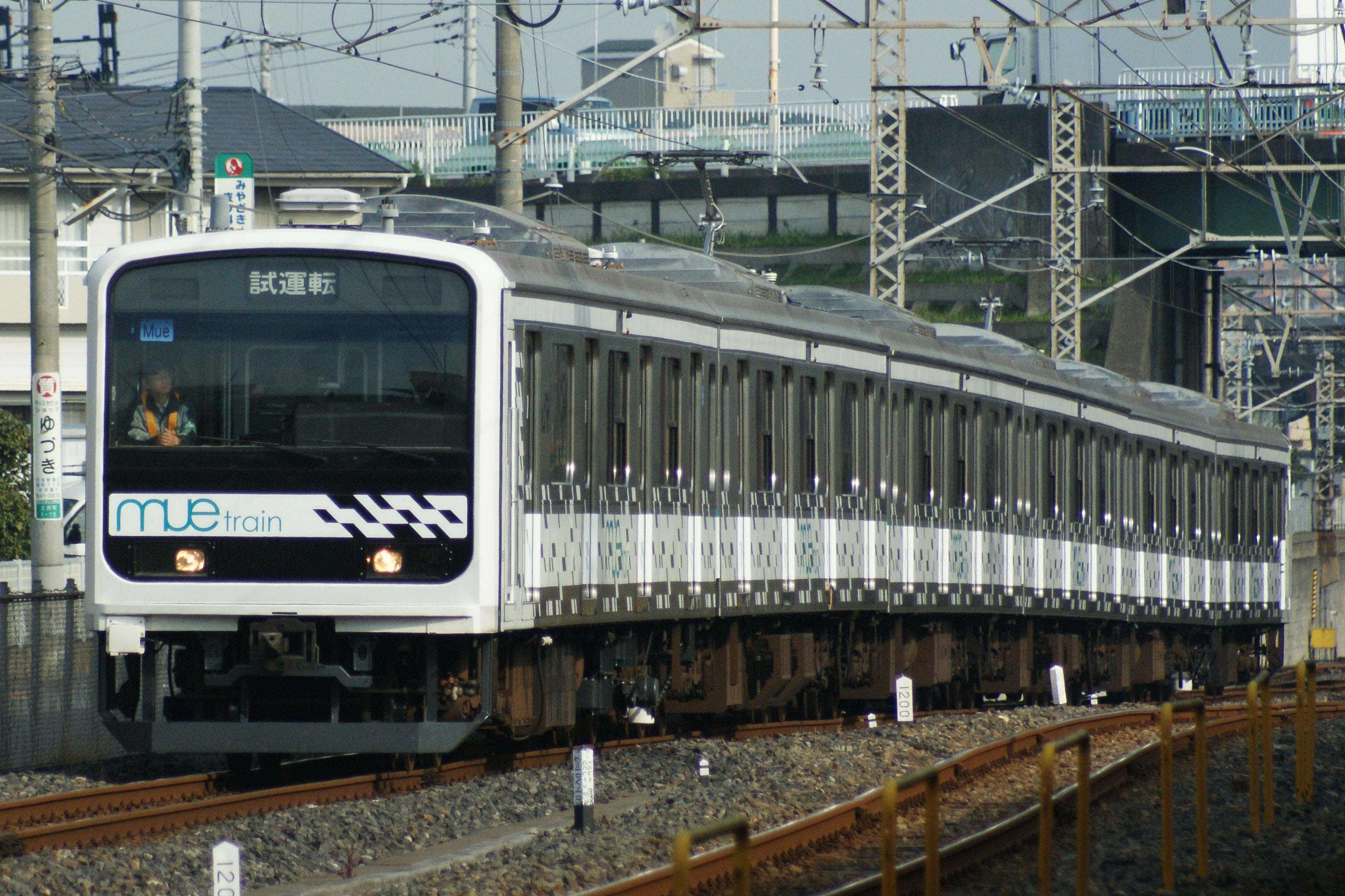 JR East 209 series EMU, experimental train set "Mue-train"